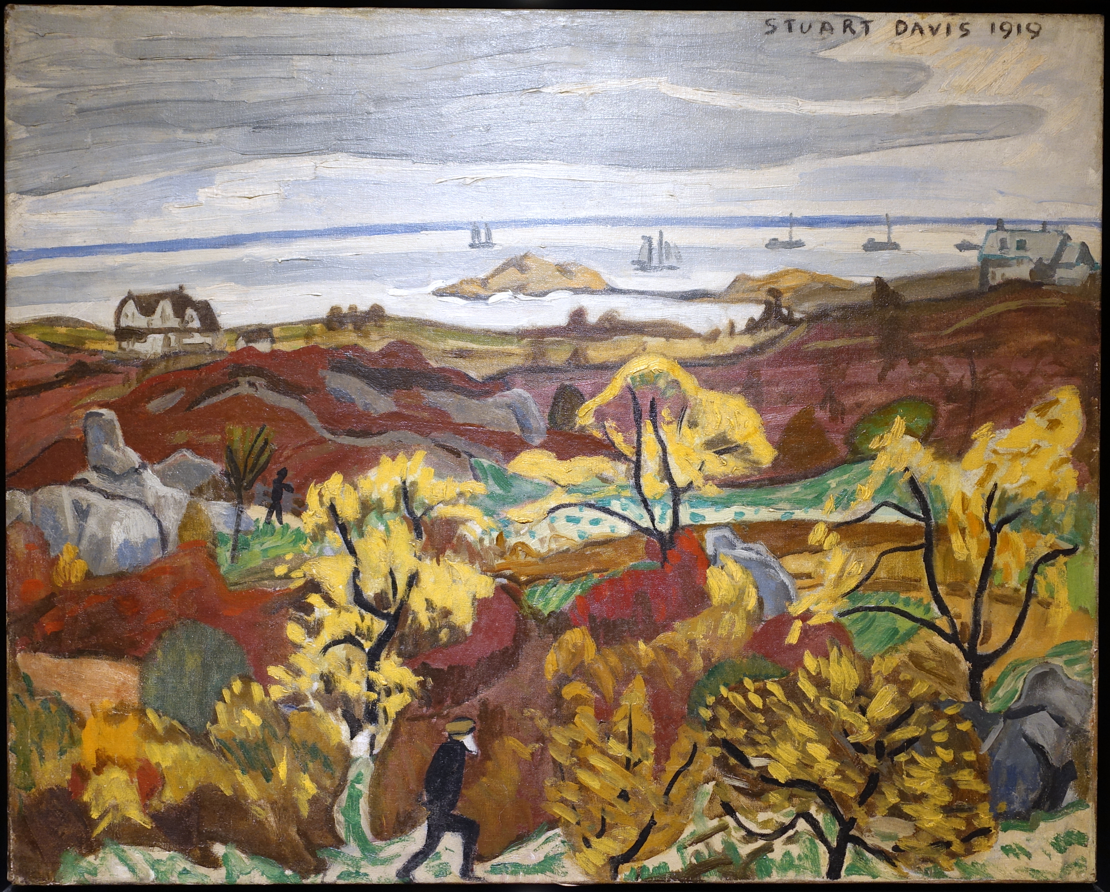 Exhibit in the Cape Ann Museum - Gloucester, Massachusetts, USA.